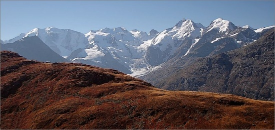 Bernina massive, view from Piz Languard (Switzerland).